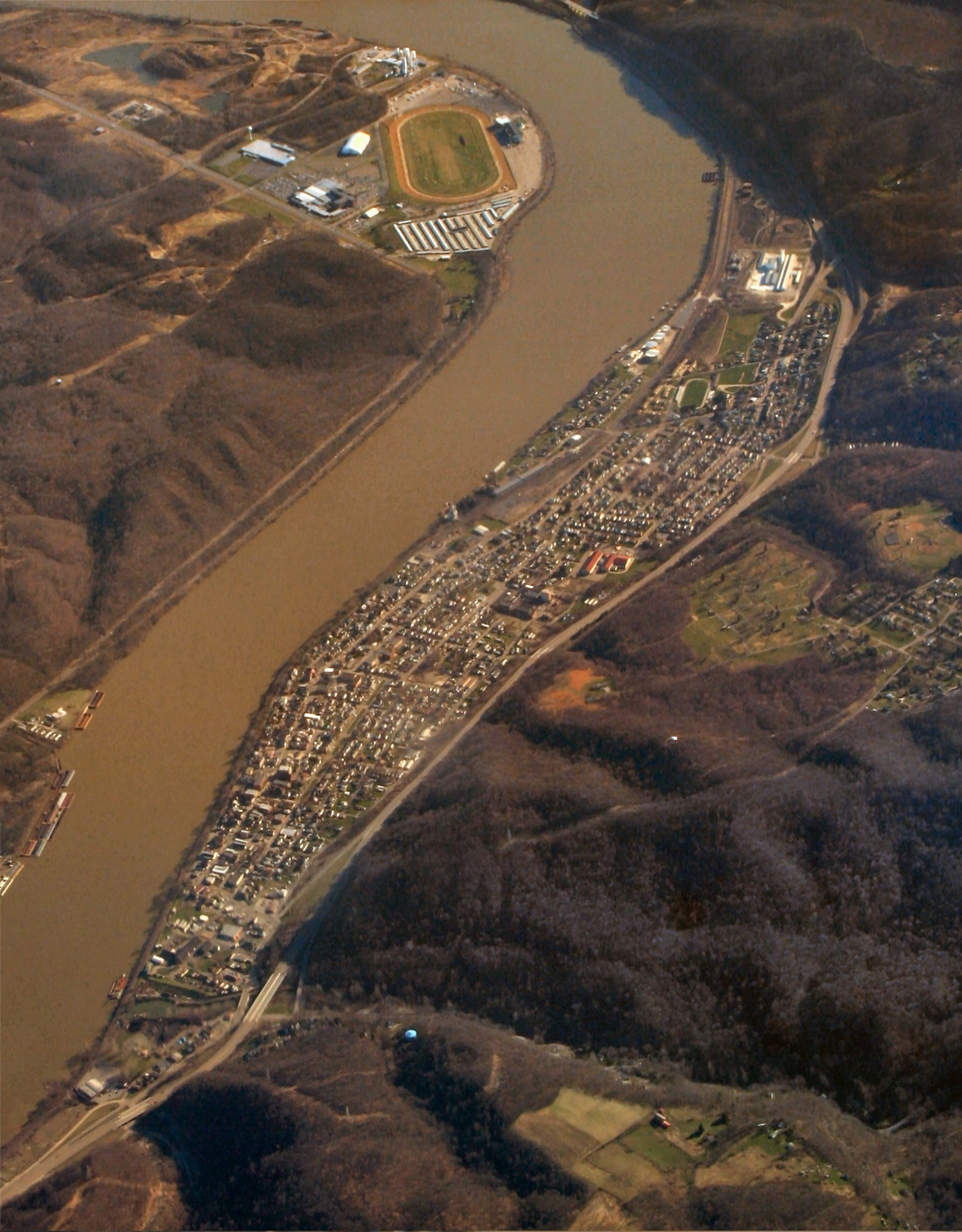 Wellsville, Ohio, United States, along the Ohio River. The smaller community on the other side of the river is Congo, West Virginia, and the complex in the riverbend is the Mountaineer Casino, Racetrack and Resort.